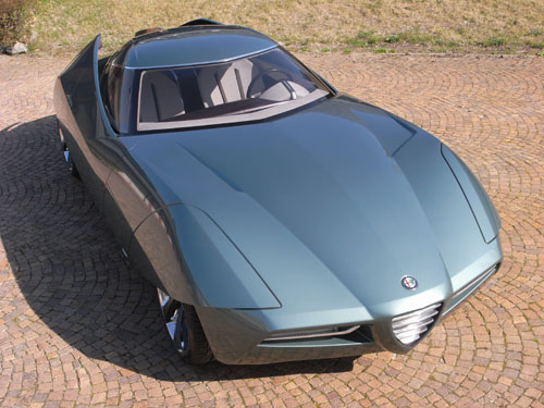 2008 Bertone Alfa Romeo BAT 11